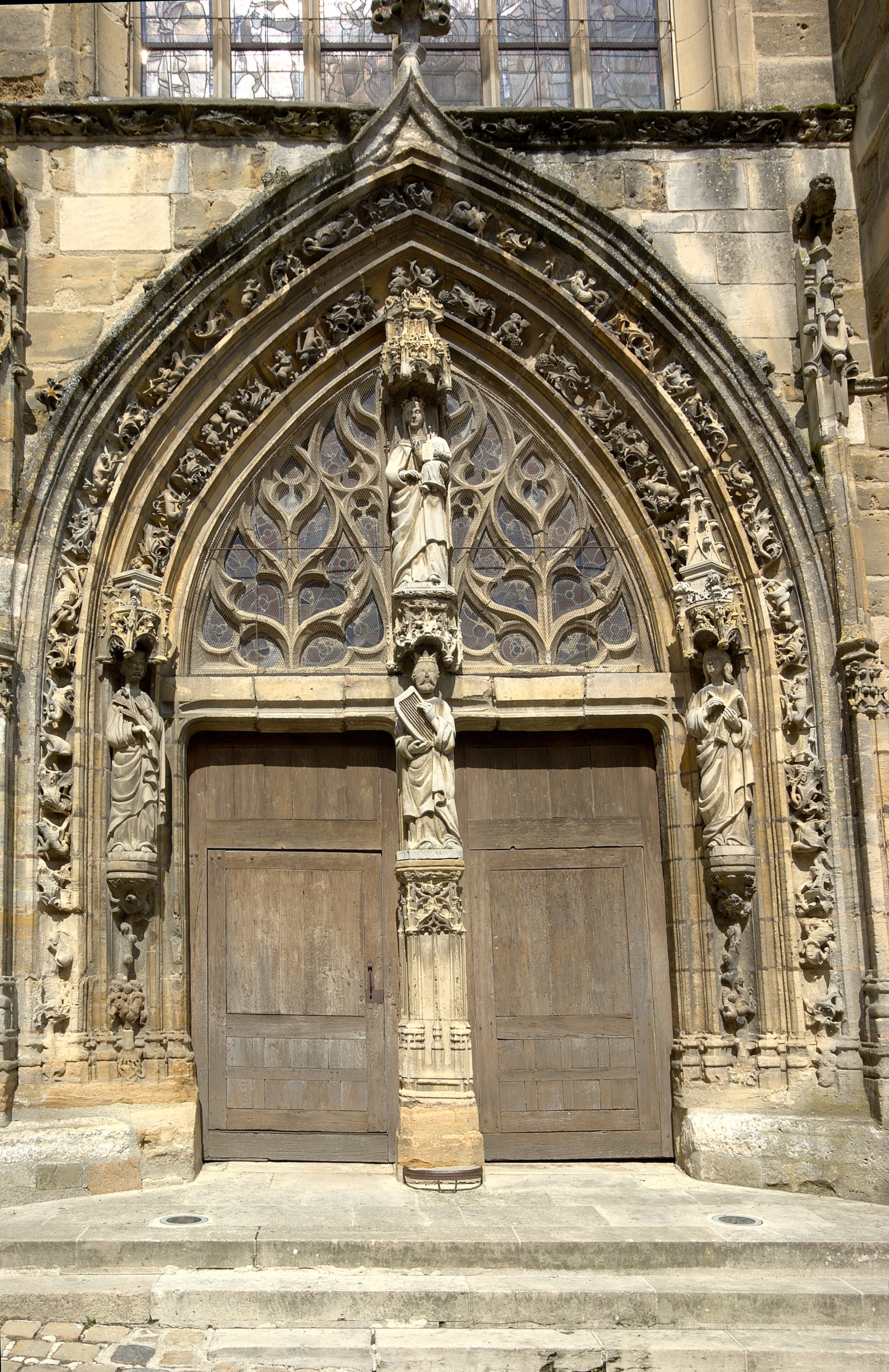 Portal of Saint-Trésain church, Avenay, Marne, France.